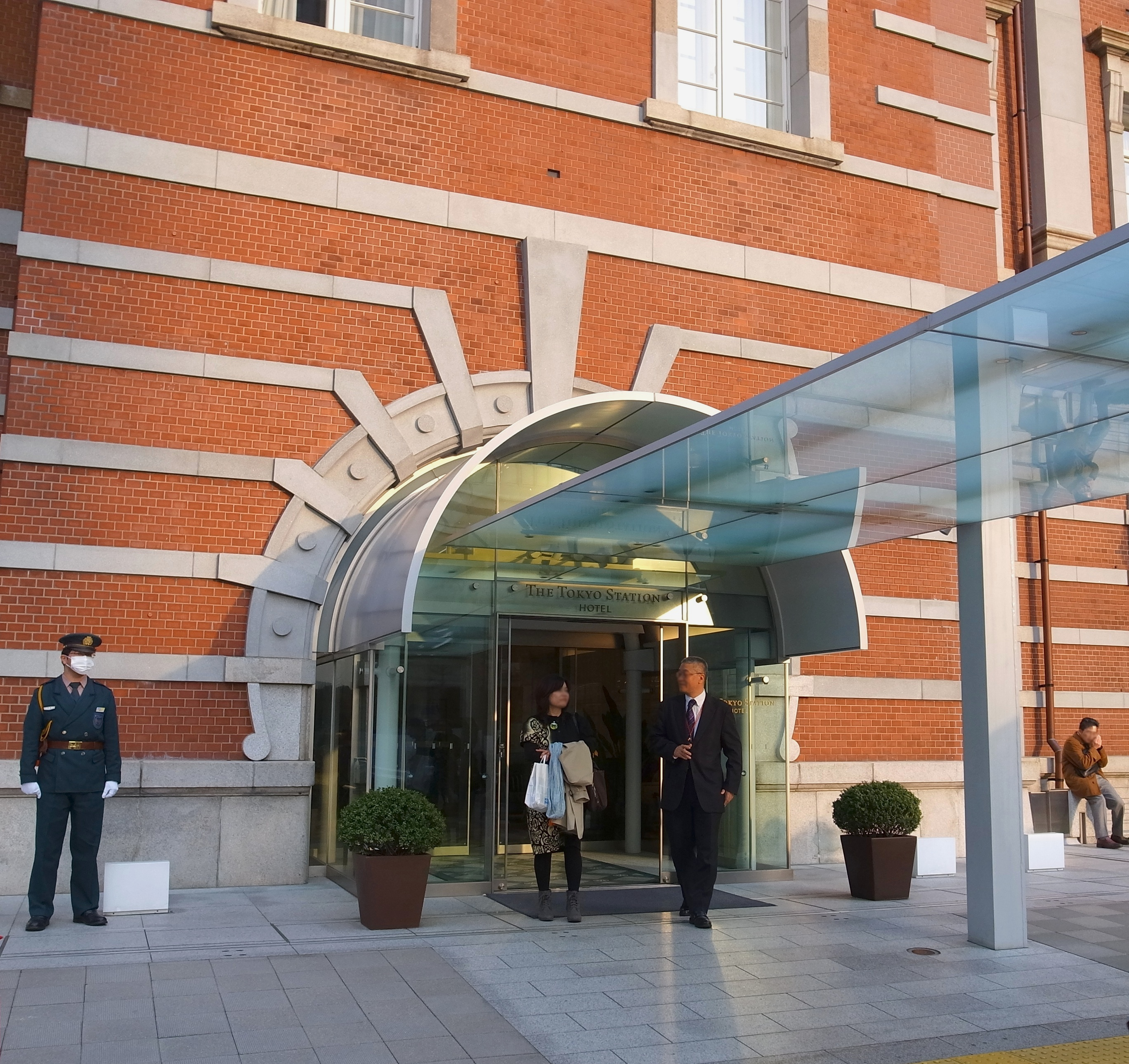 Tokyo Station Hotel entrance